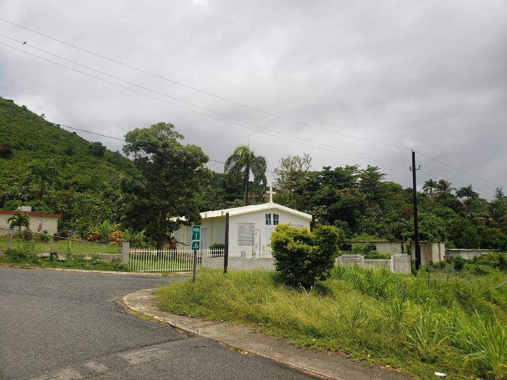 Catholic chapel (Capilla Católica Nuestra Sra de la Providencia) in Calzada, Maunabo, Puerto Rico near the Escuela de la Comunidad Calzada